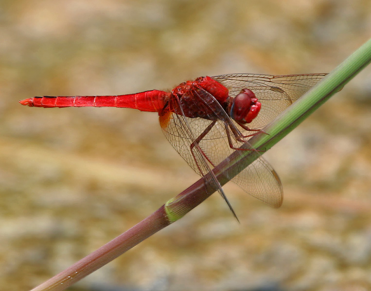 Ruddy Marsh Skimmer or Scarlet Skimmer or Crimson Darter Crocothemis servilia at Pocharam lake, Andhra Pradesh, India.